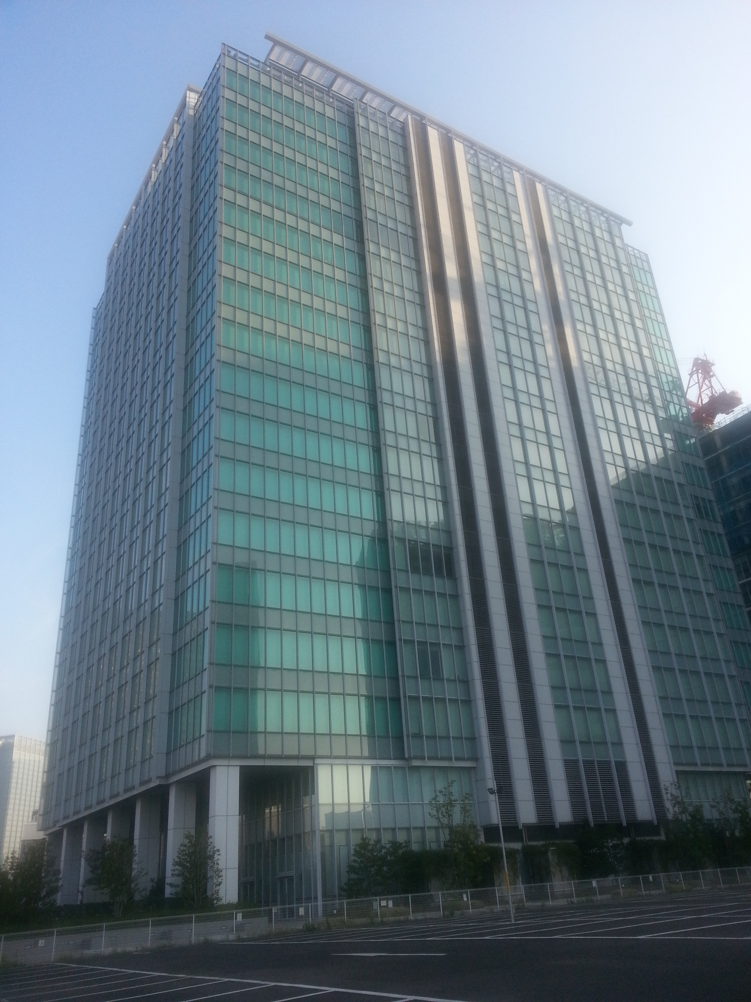 Yokohama Blue Avenue